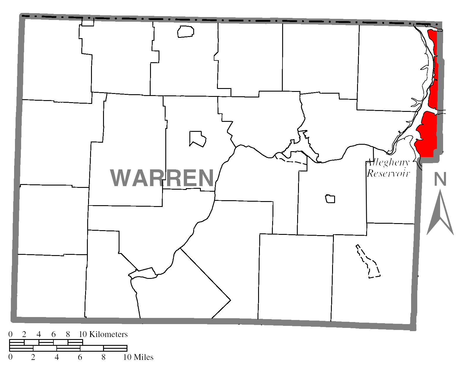 Map of Warren County higlighting former Corydon Township.